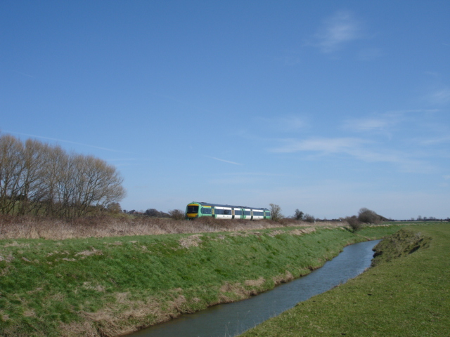 Train and River Brede East Sussex Train going east to Ashford from Hastings along the river Brede.